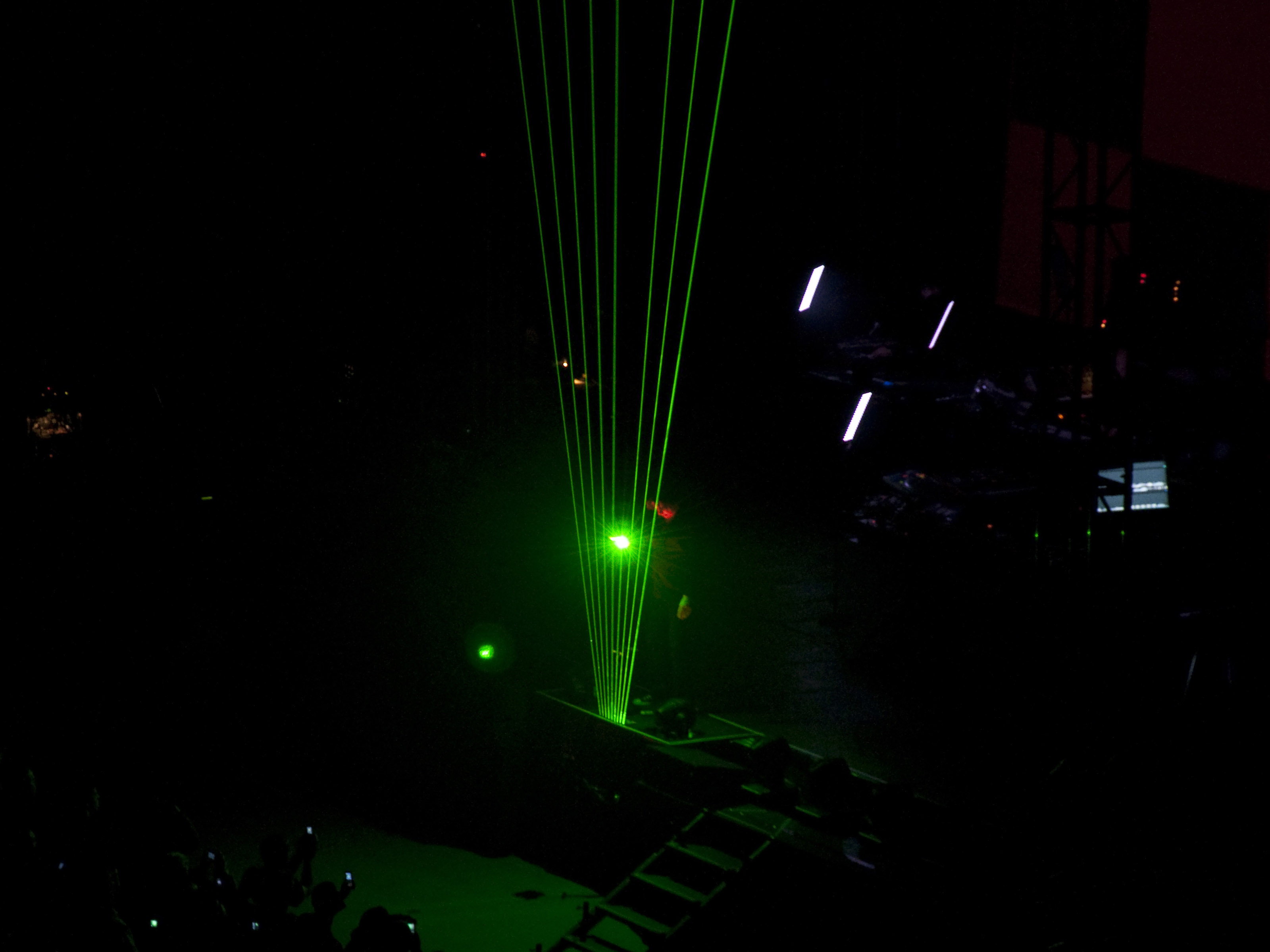 Jean Michel Jarre playing laser harp in Spodek, Katowice, Poland